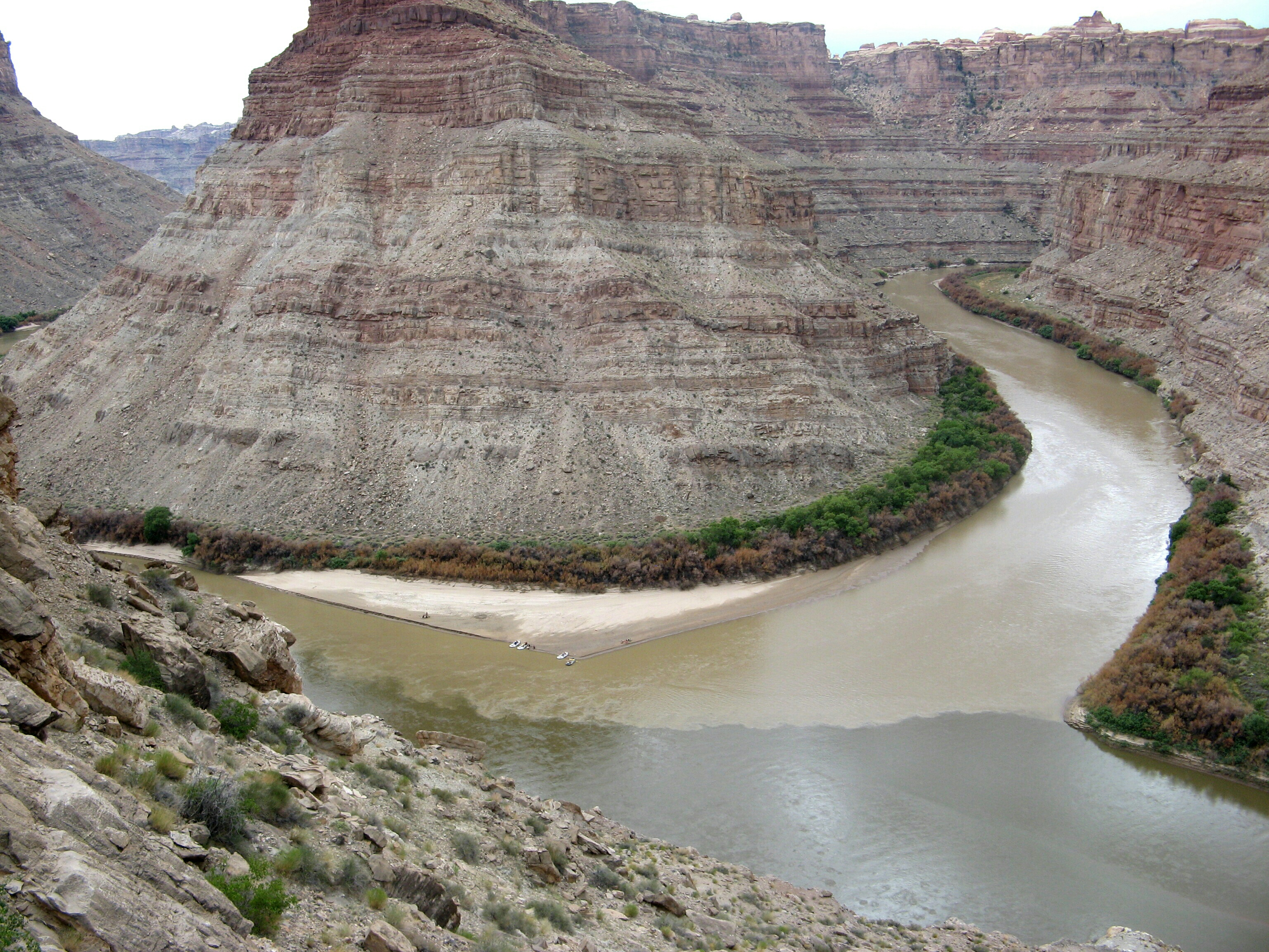 The Green River (upper right) joins the Colorado River (lower right) in Canyonlands National Park, Utah, United States